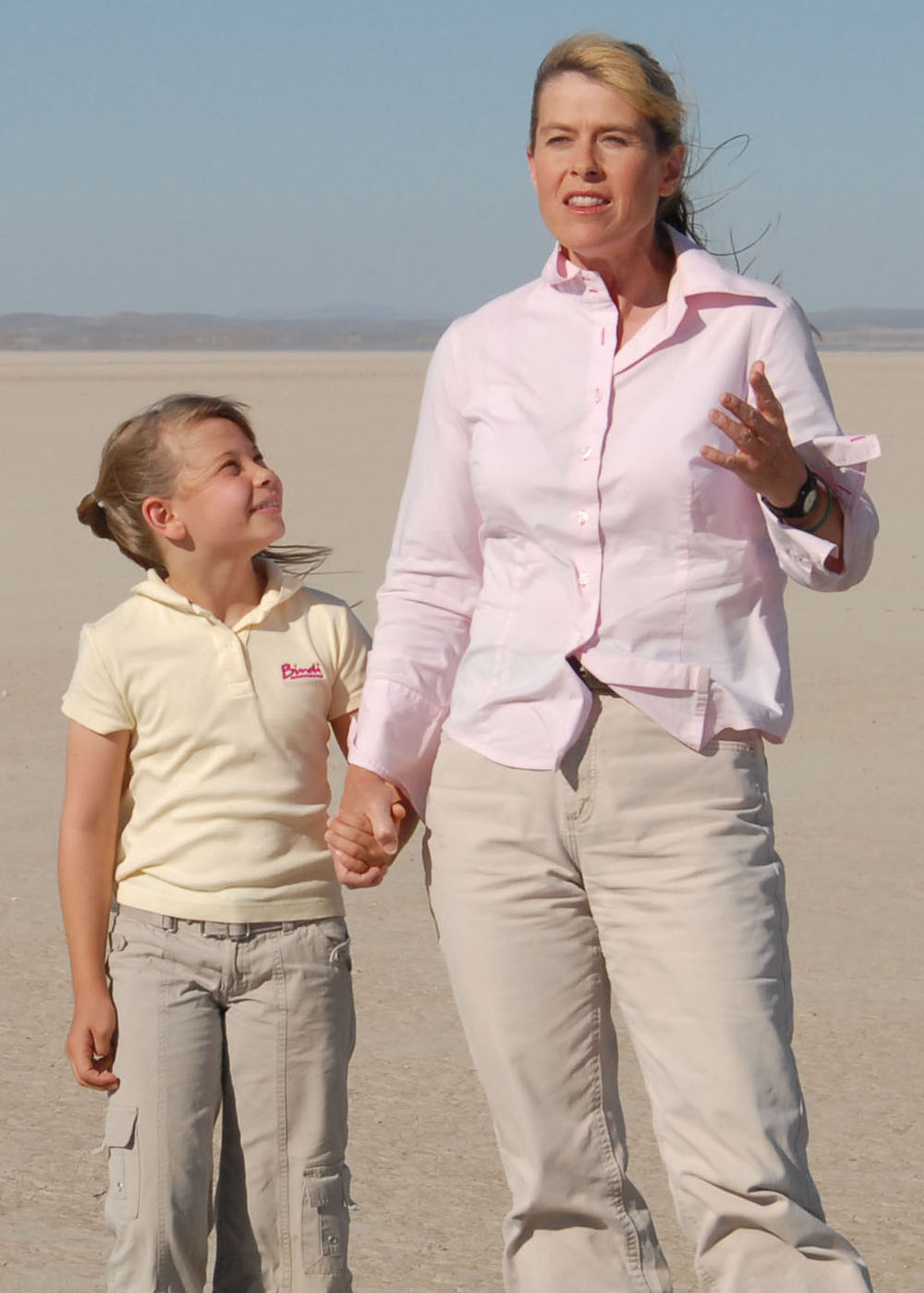 EDWARDS AIR FORCE BASE, Calif. -- Terri and Bindi Irwin visit Edwards on Sept. 6 to film a segment for their television show "Bindi the Jungle Girl." The program airs on the Discovery Kids channel.